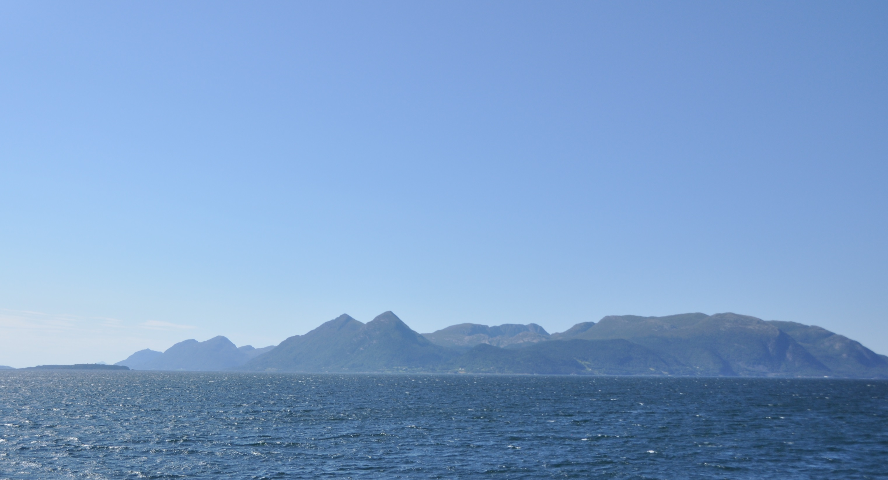 Otrøya island at Moldefjord, Midfjord and Tautra small island left hand. Seen from Ferry Vestnes-Molde